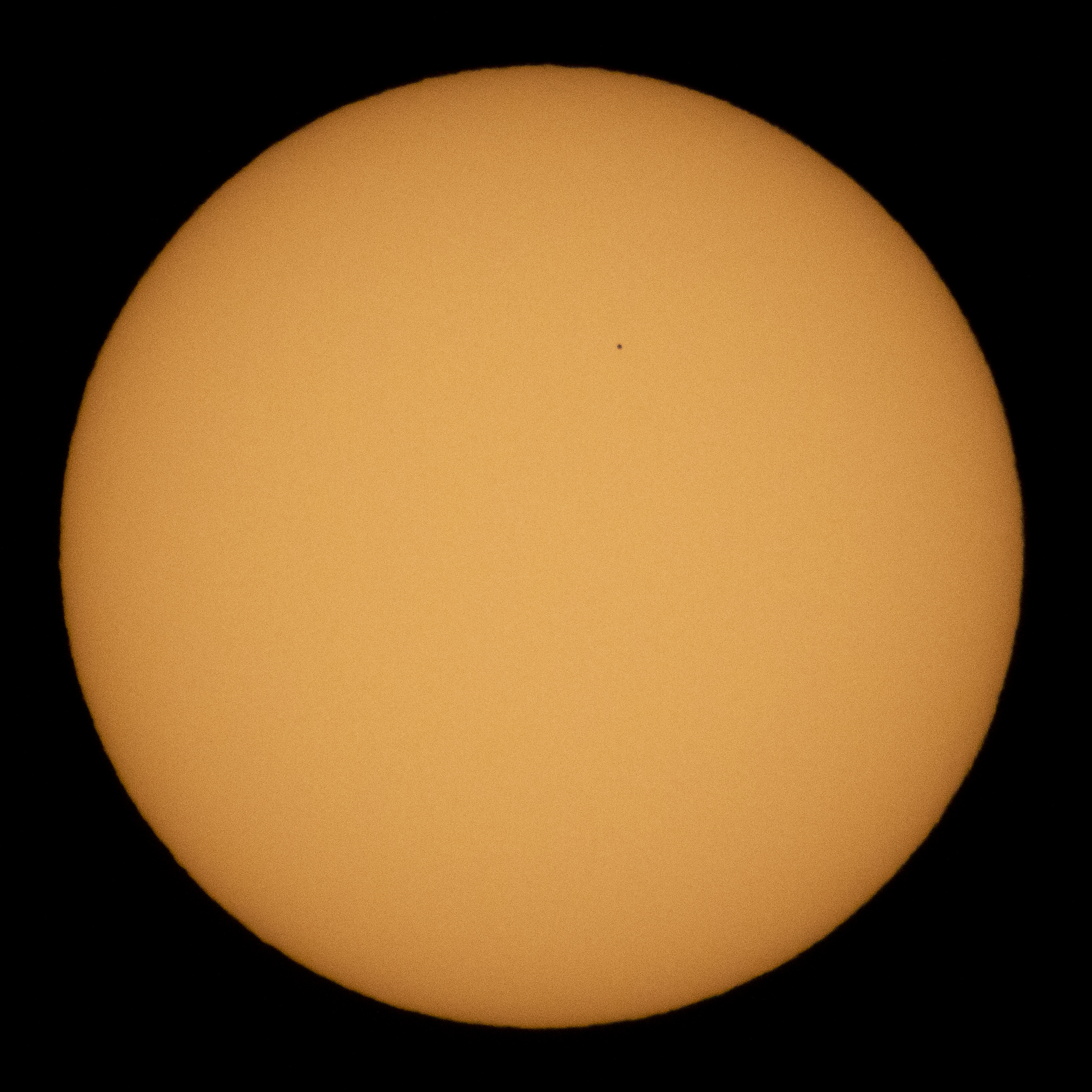 The planet Mercury is seen in silhouette as it transits across the face of the sun, Monday, Nov. 11, 2019, in Salt Lake City, Utah. Mercury’s last transit was in 2016. the next won't happen again until 2032.